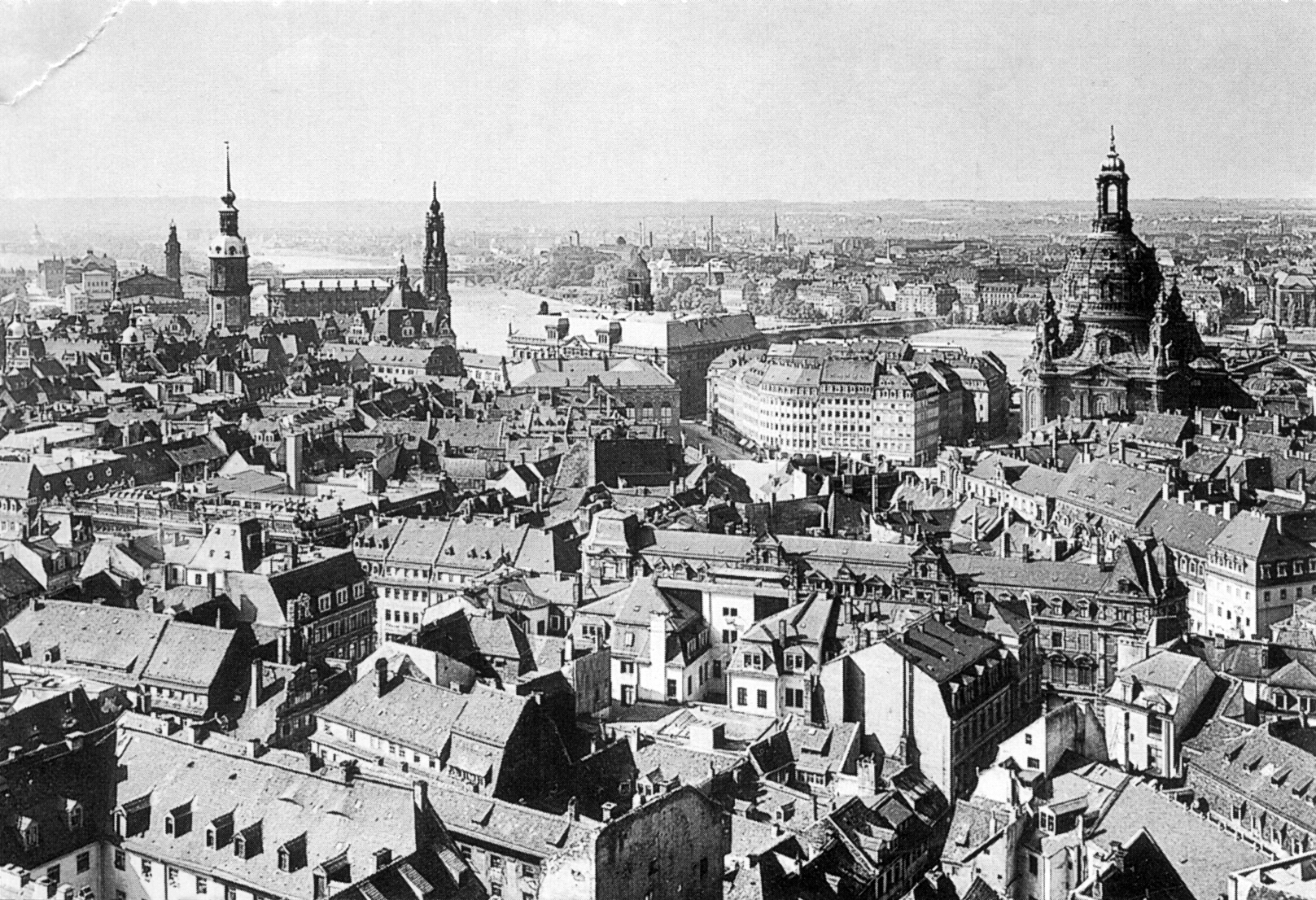 Dresden (Saxony, Germany) - View from town hall over the Altstadt, um 1910